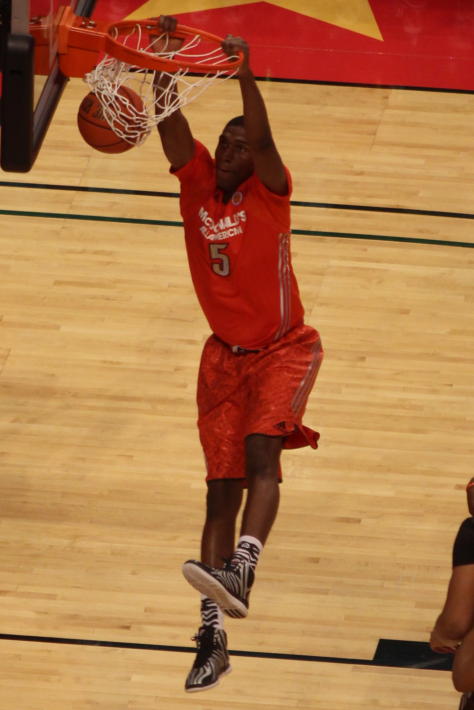 Kevon Looney dunking in the w:2014 McDonald's All-American Boys Game